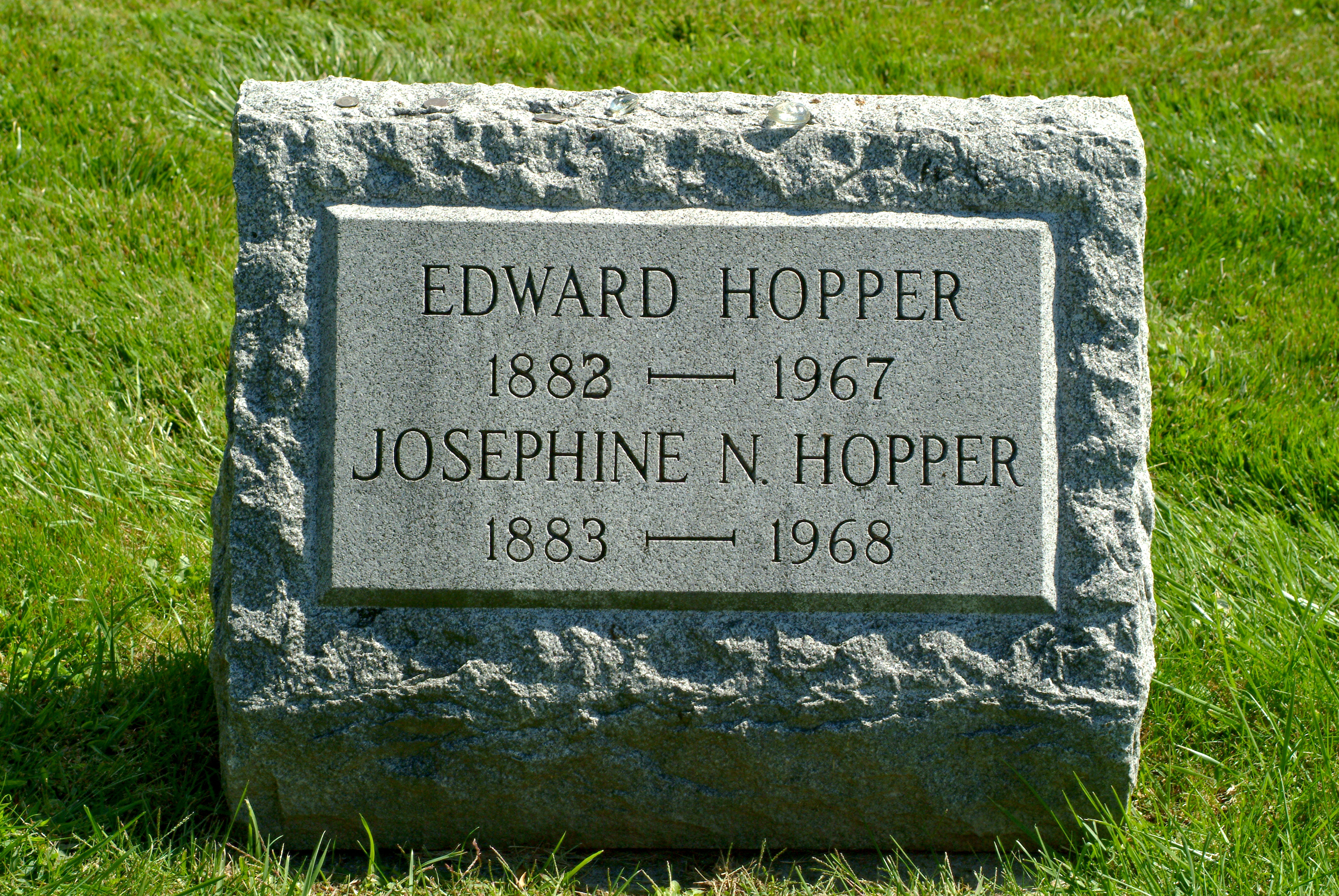 Template:En1=Bonita Jo Underwood